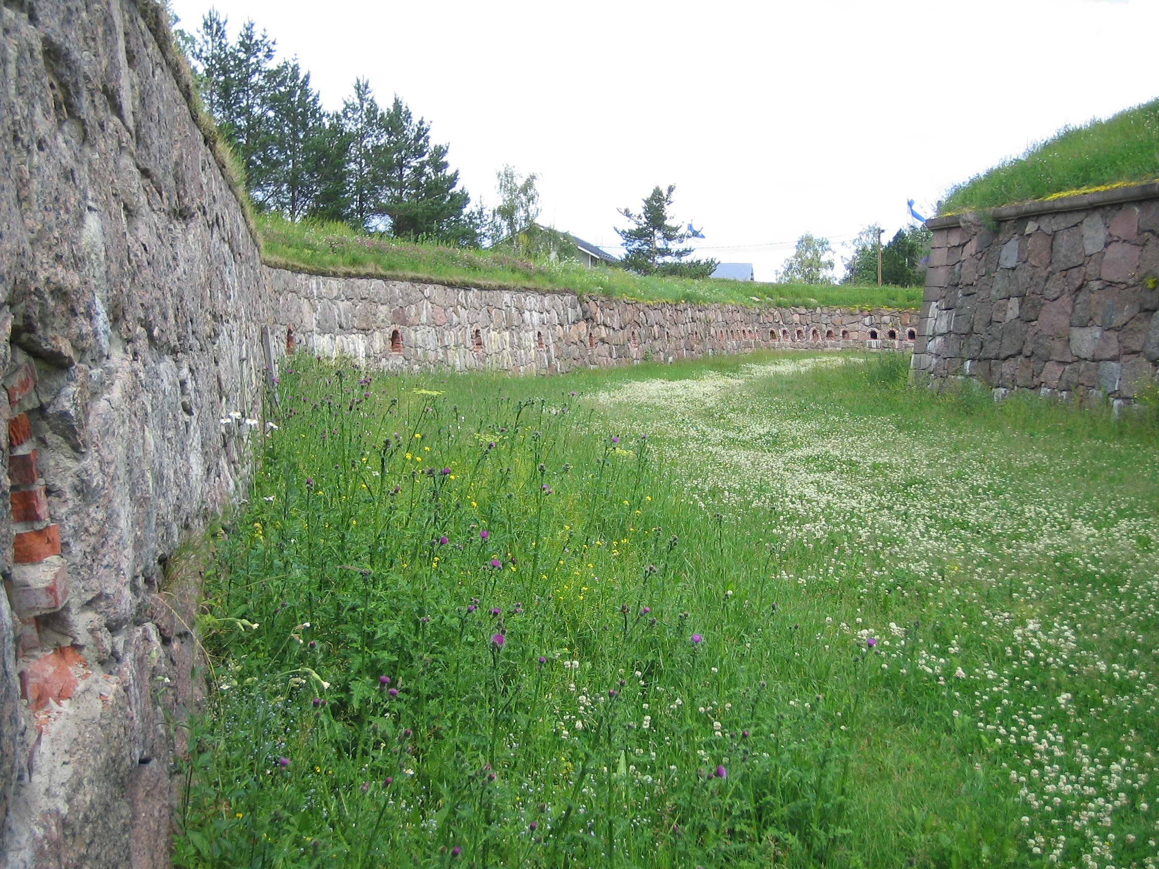 Fortress of Hamina, gallery and wall of arrow fort